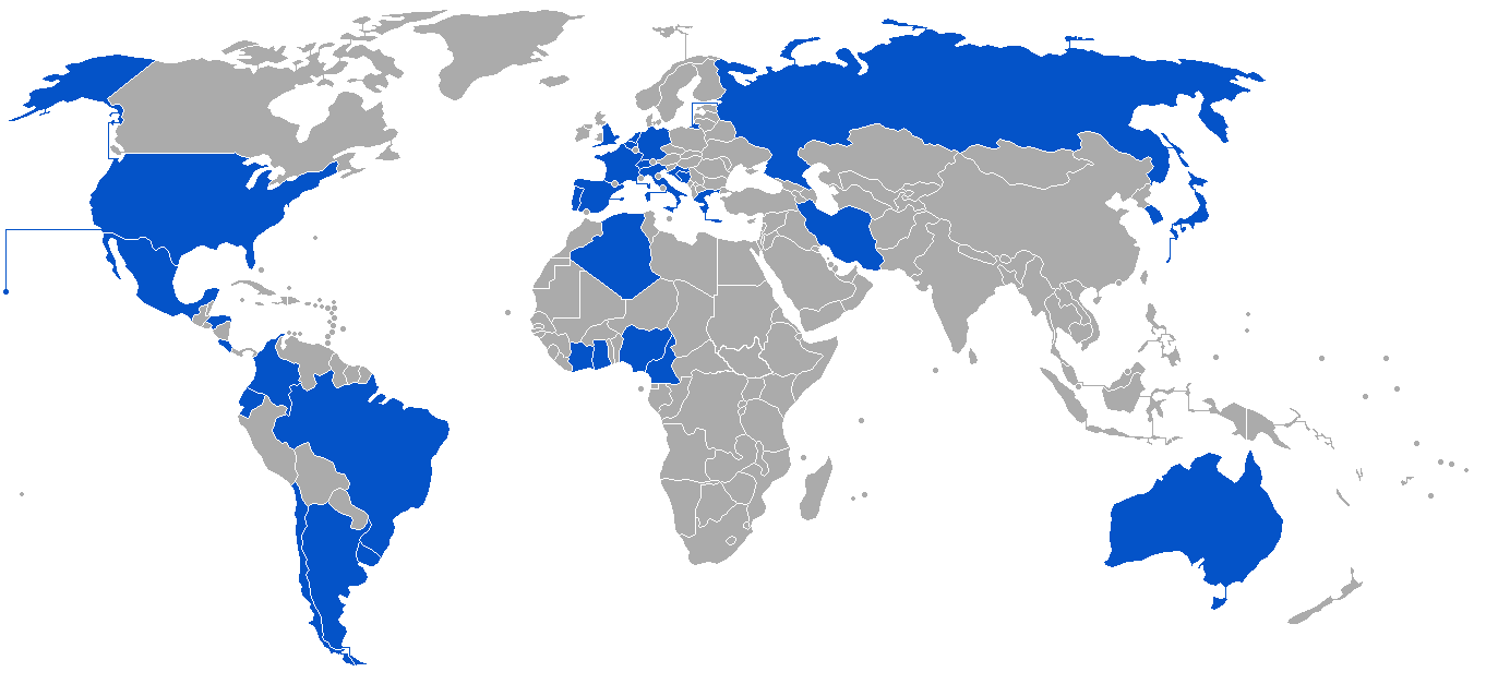 Nations that qualified for the FIFA World Cup Brazil 2014